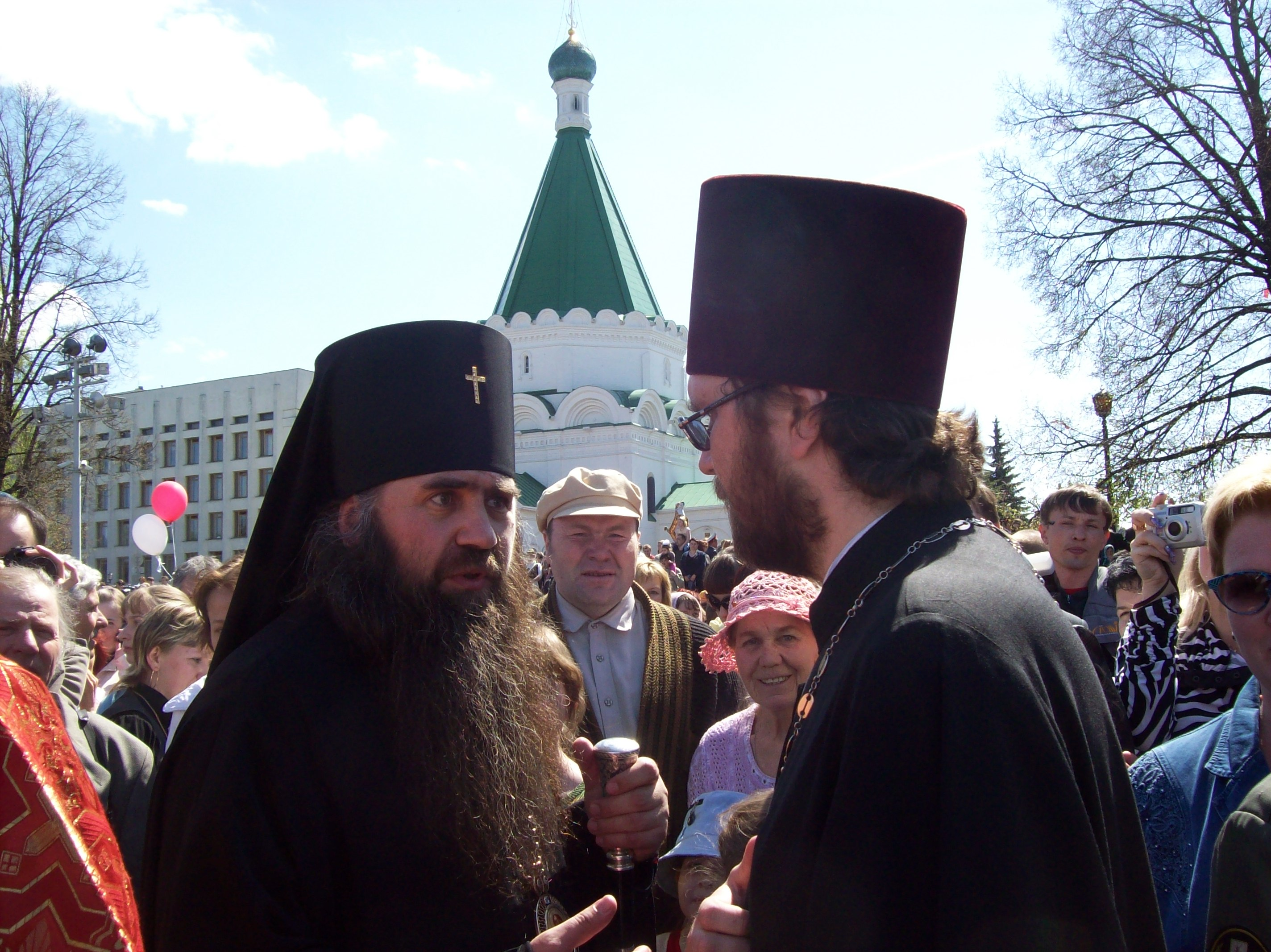 Archbishop Georgiy (George) of Nizhny Novgorod and Arzamas (left), speaking with an Orthodox priest.